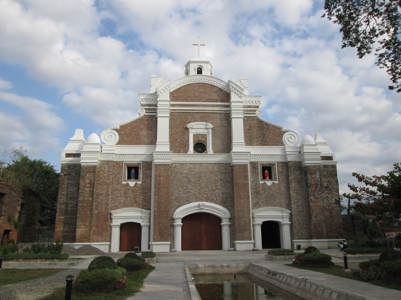 Restored church of Saint Joseph in Dingras, Ilocos Norte.